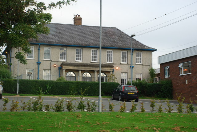 Ysbyty Bryn Beryl Hospital The hospital was originally built in 1924, and extended in 1942 by the Royal Navy to serve its land-based training centre at HMS Glendower SH4236 and SH4336, later to become Butlin's Pwllheli, and now Hafan y Môr holiday camp. Among the more famous of the trainees at HMS Glendower was the present Duke of Edinburgh.